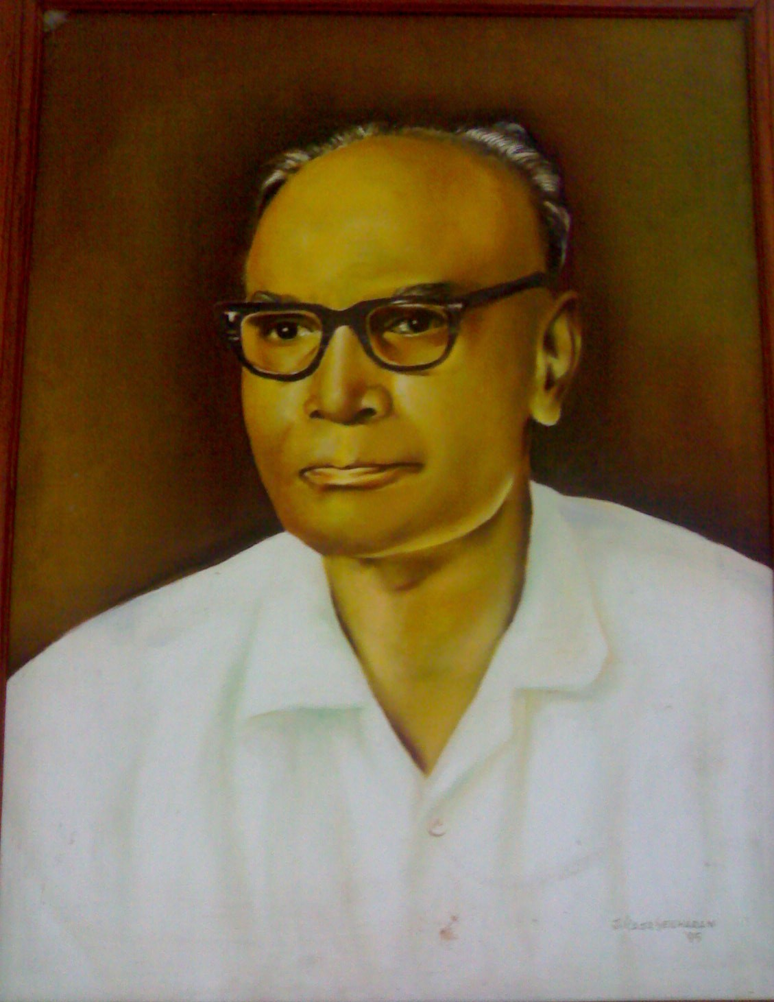 Picture taken from portrait of P. Kesavadev, kept at his home in Trivandrum ,Kerala. owned by son Jothydev.K for free use in media.